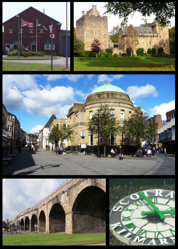 Clockwise from top-left: HMP Kilmarnock, Dean Castle, RBS Building on King Street, Kilmarnock Railway Viaduct and Kilmarnock Train Station Clock.